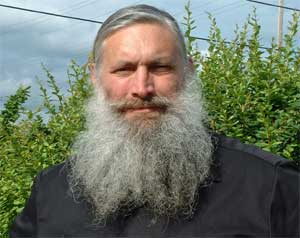 A photo of User:WHEELER, placed under GFDL by the user himself. Reuploaded by User:JesseW after he accidentally deleted it has lacking a source. wheeler